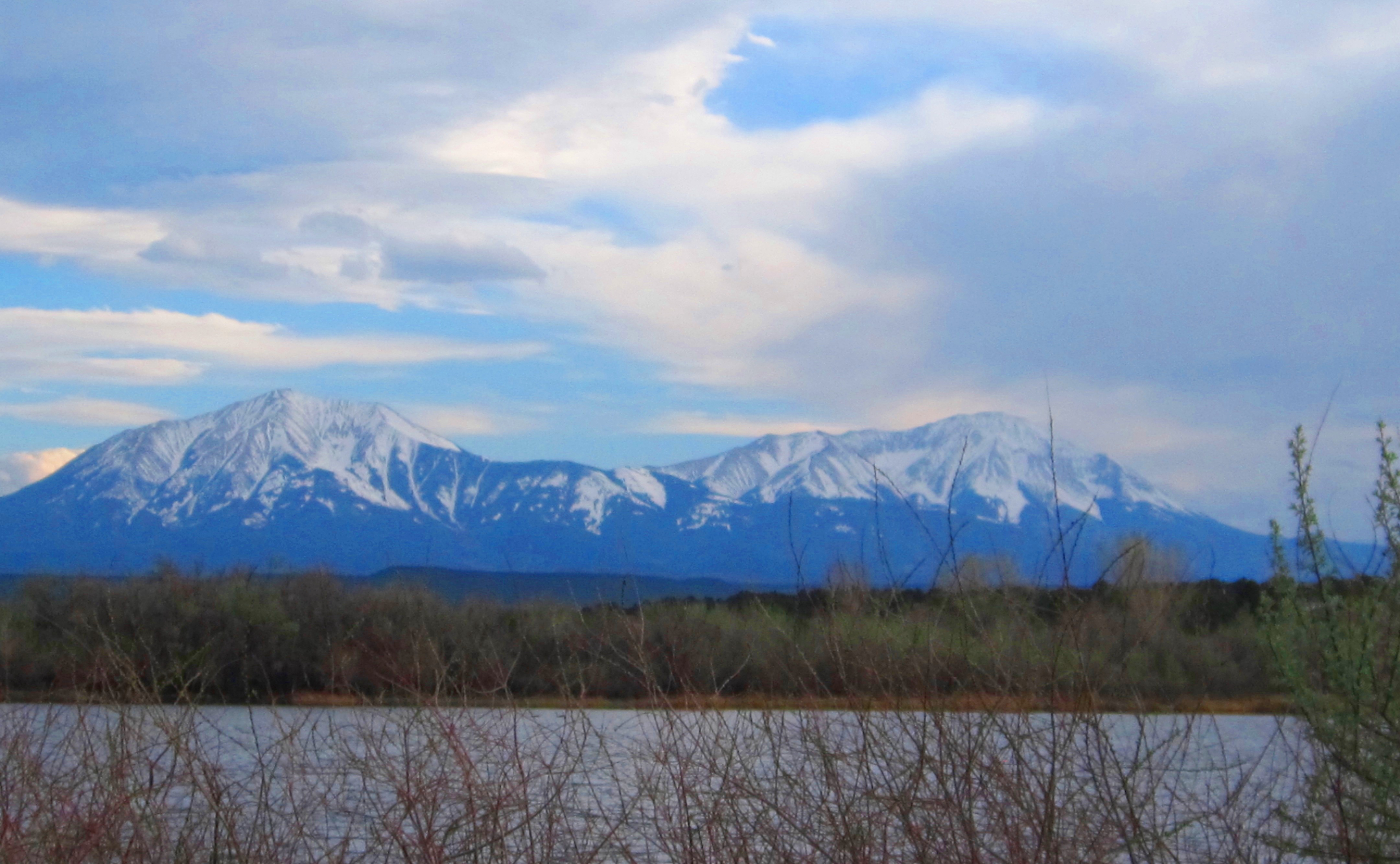 Spaish Peaks near Walsenburg